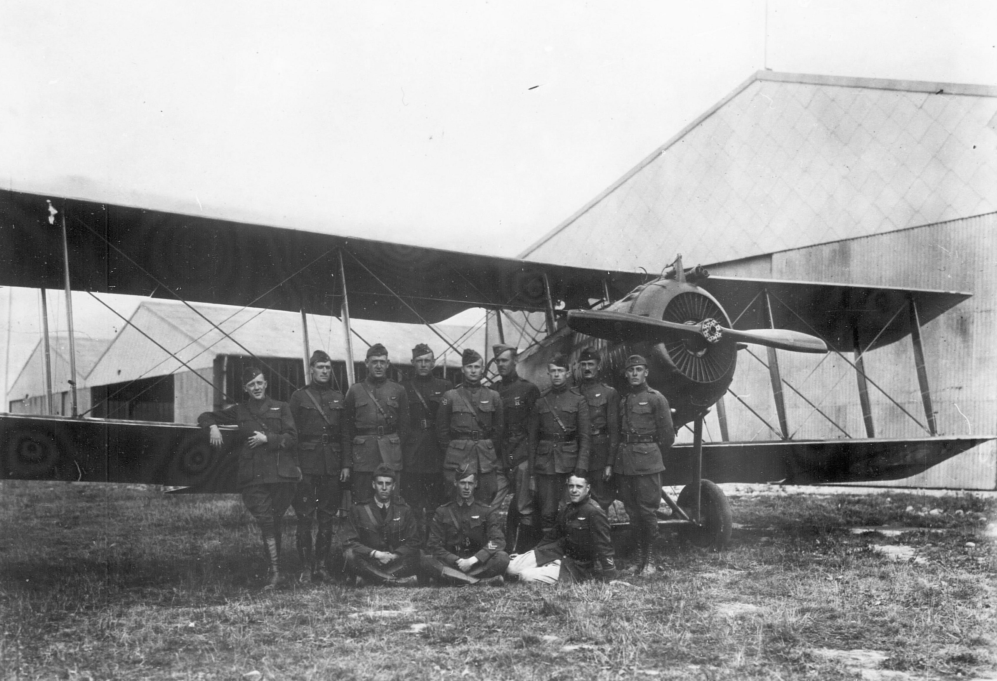 99th Aero Squadron - Salmson 2A2, Foucaucourt Aerodrome, France